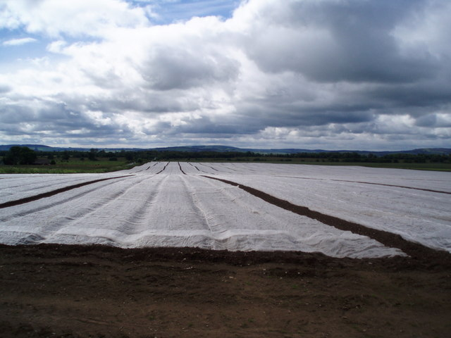 Fleece on field, used to warm the soil and speed germination.